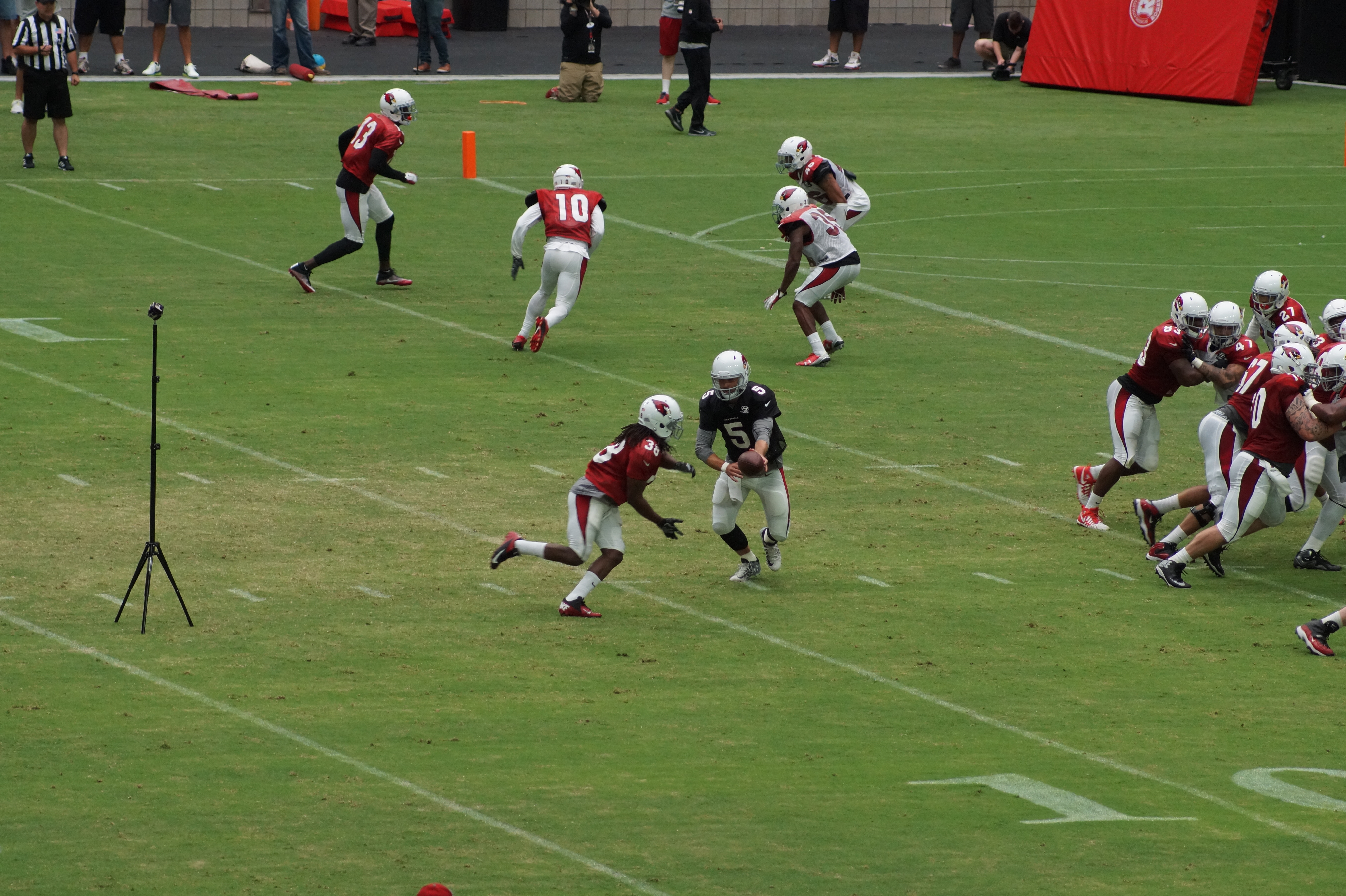 Drew Stanton # 5 handing the ball off